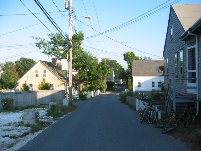 A residential street in Provincetown. Photo taken by Dudesleeper on September 26, 2003.